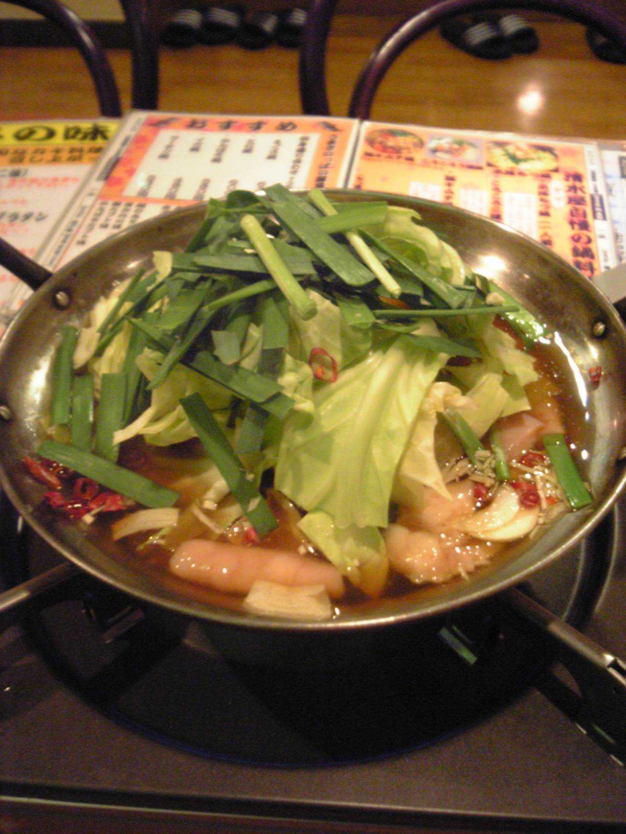 motsunabe, see Motsunabe